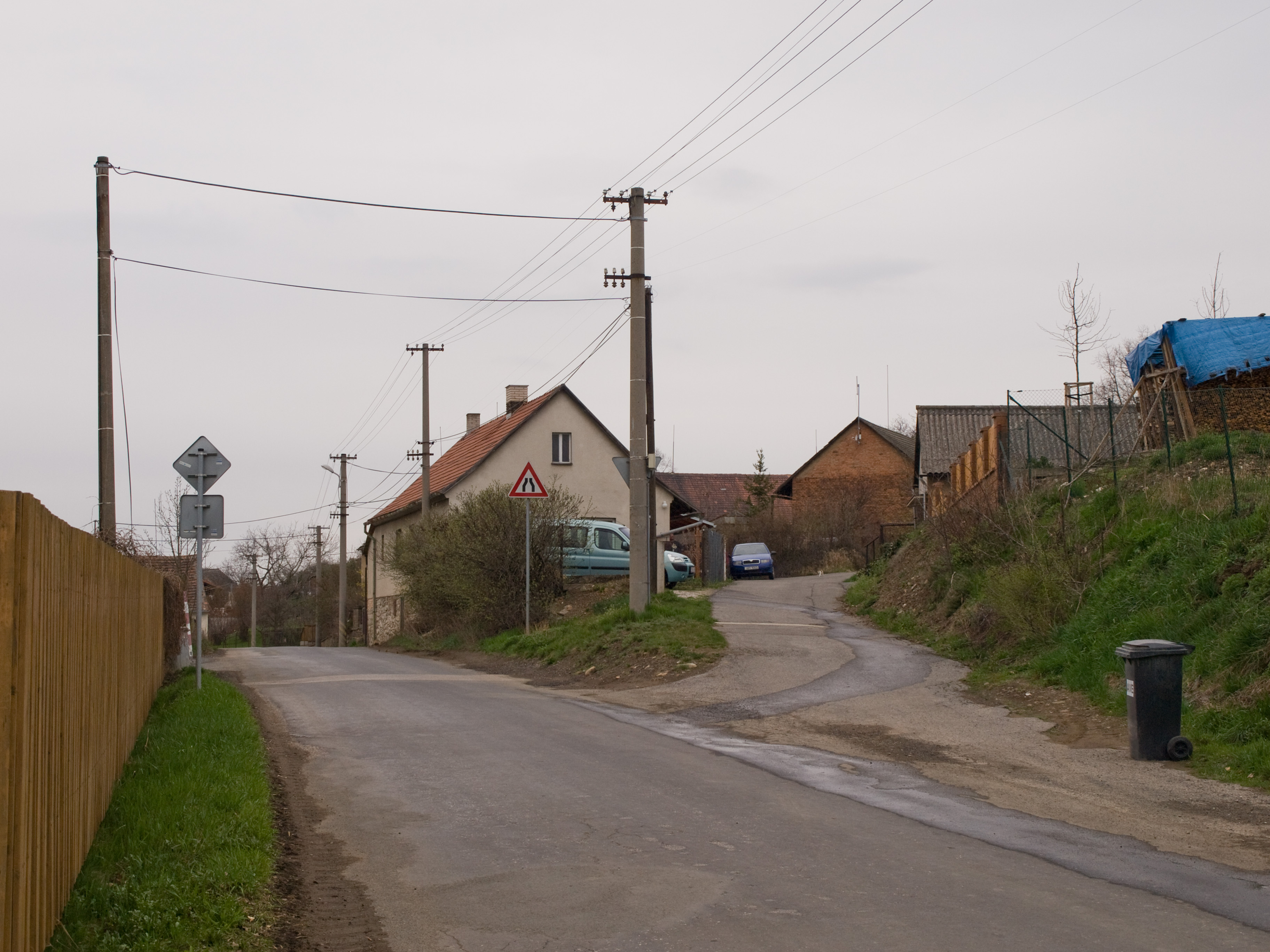 Tihava, Kotopeky municipality, Beroun District, Central Bohemian Region, Czech Republic